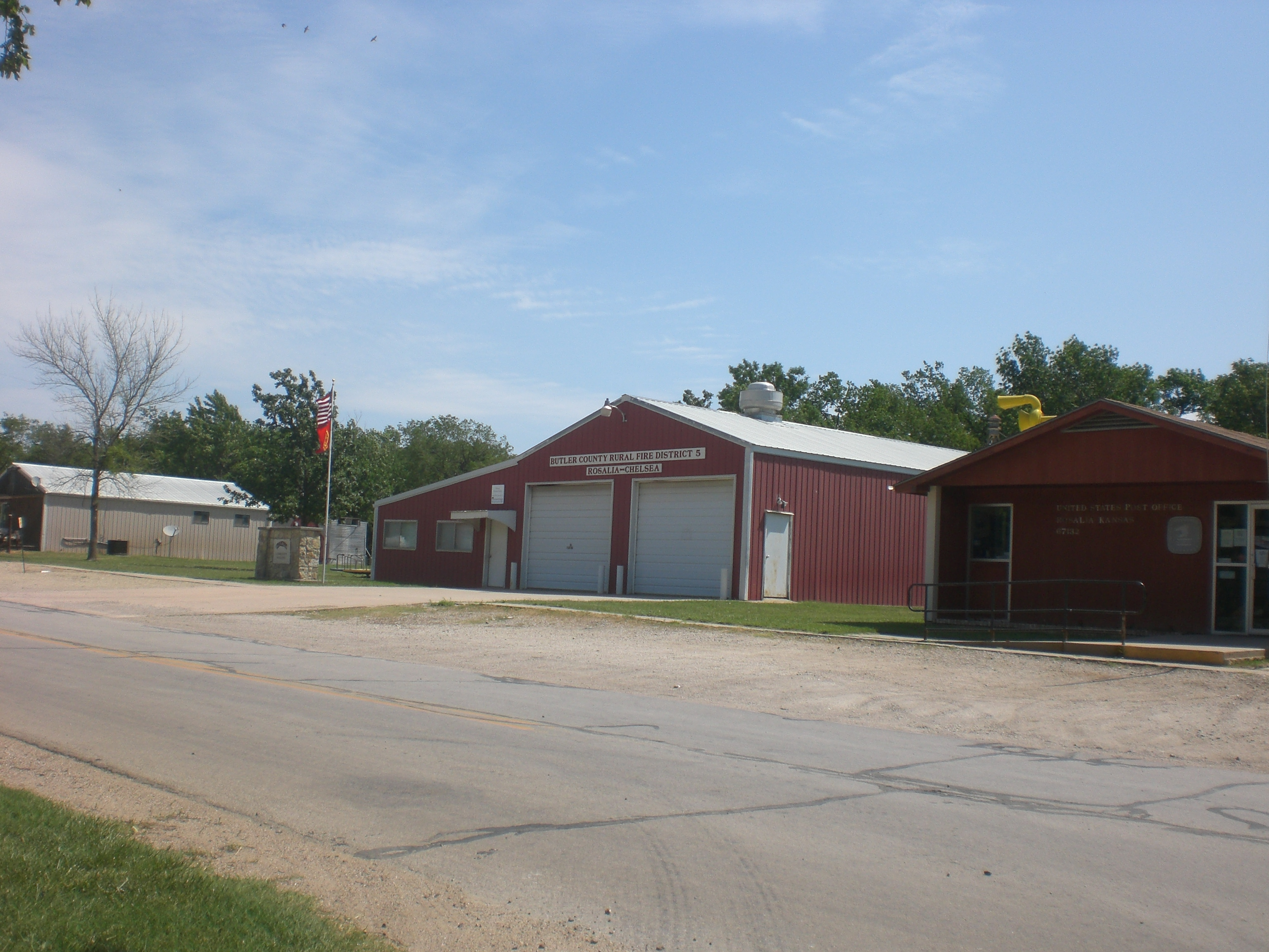 Rosalia KS main street, with post office, firehouse, and community building